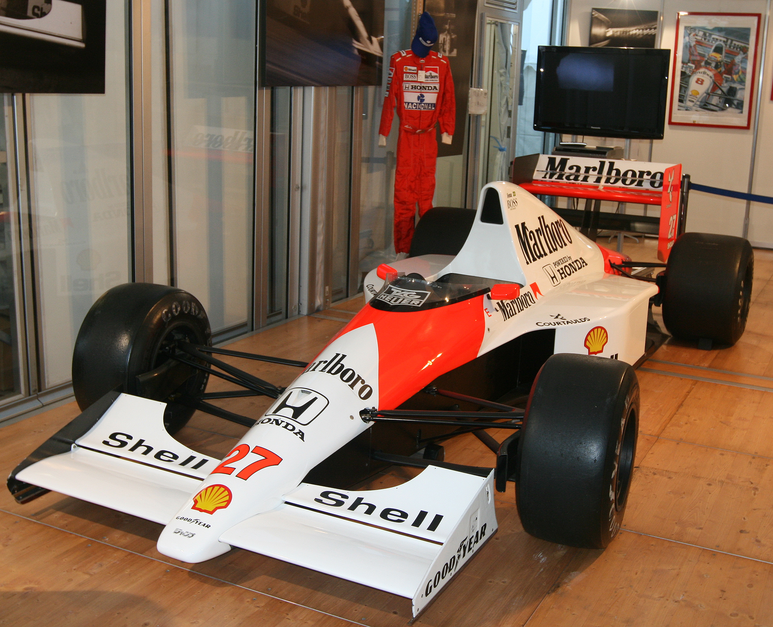 Formula One 2009 Rd.15 Japanese GP: Ayrton Senna's 1990 McLaren MP4/5B at the Ayrton Senna Foundation's store